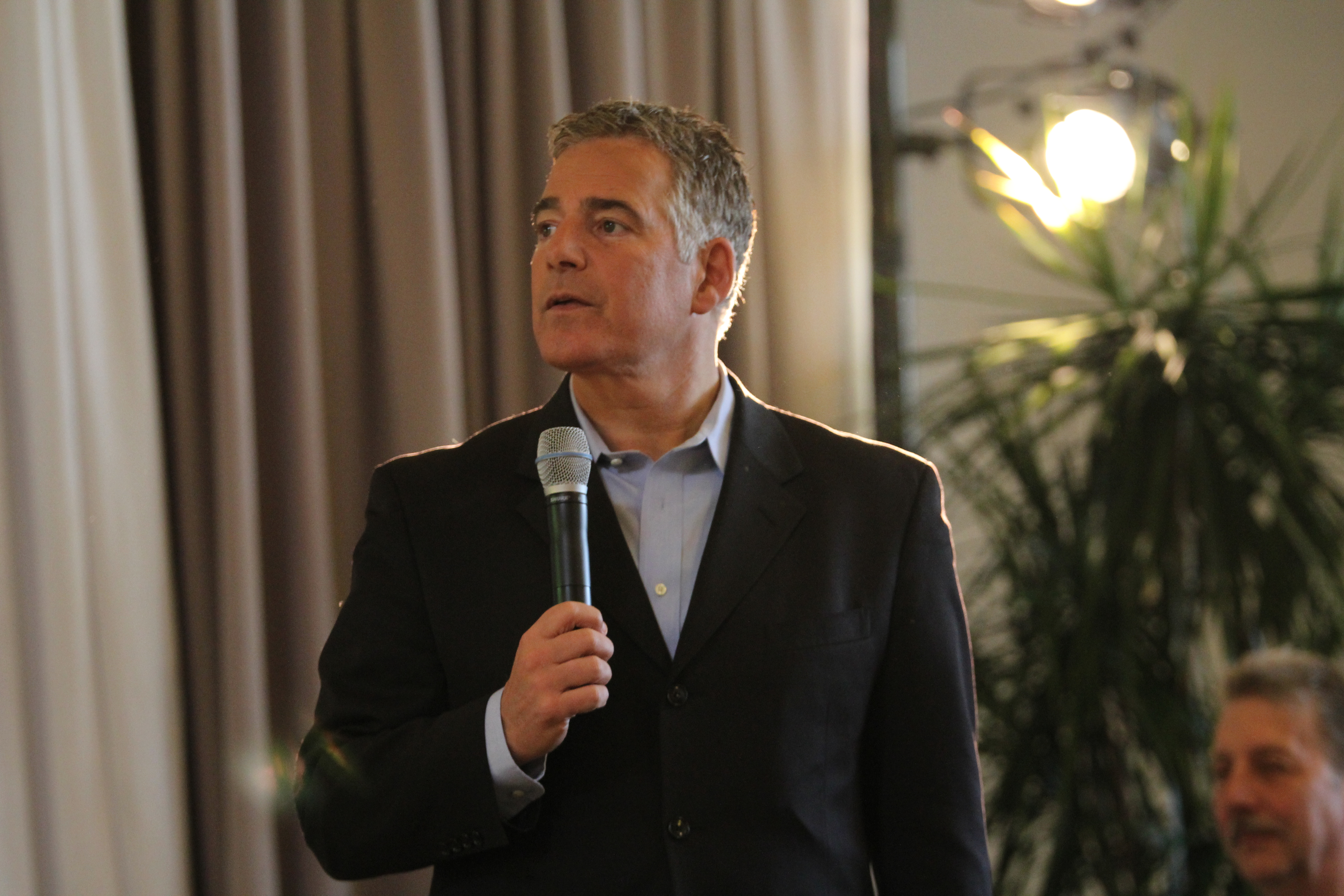 Photo by Kimberly Cecchini/Montclair Film Festival